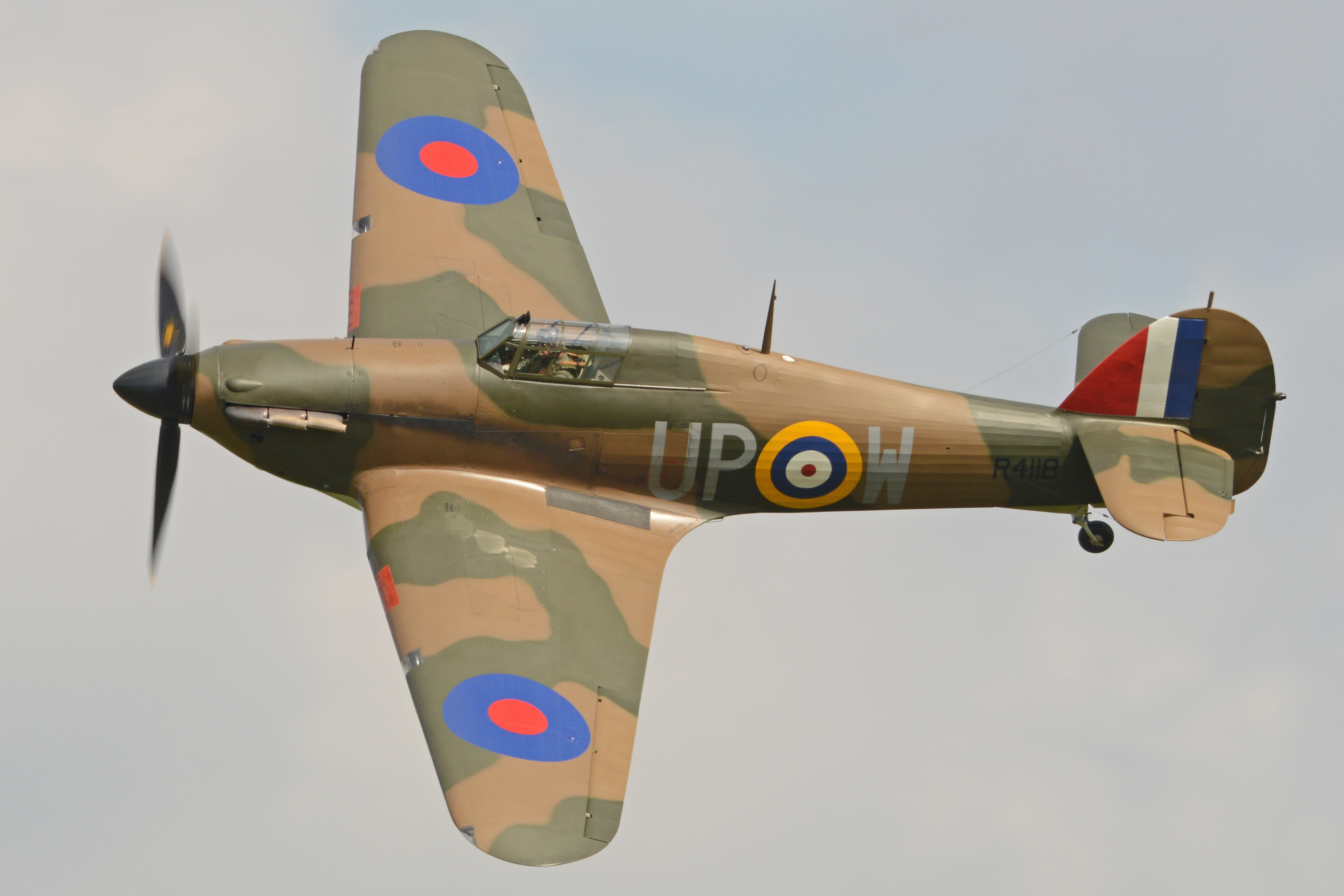 c/n G5-92301. This is the only airworthy Hurricane with a genuine Battle of Britain history. Since 2015 she has lodged with the Shuttleworth Collection and is seen displaying at the 2017 Season Premier Airshow at Old Warden, Bedfordshire, UK. 7th May 2017